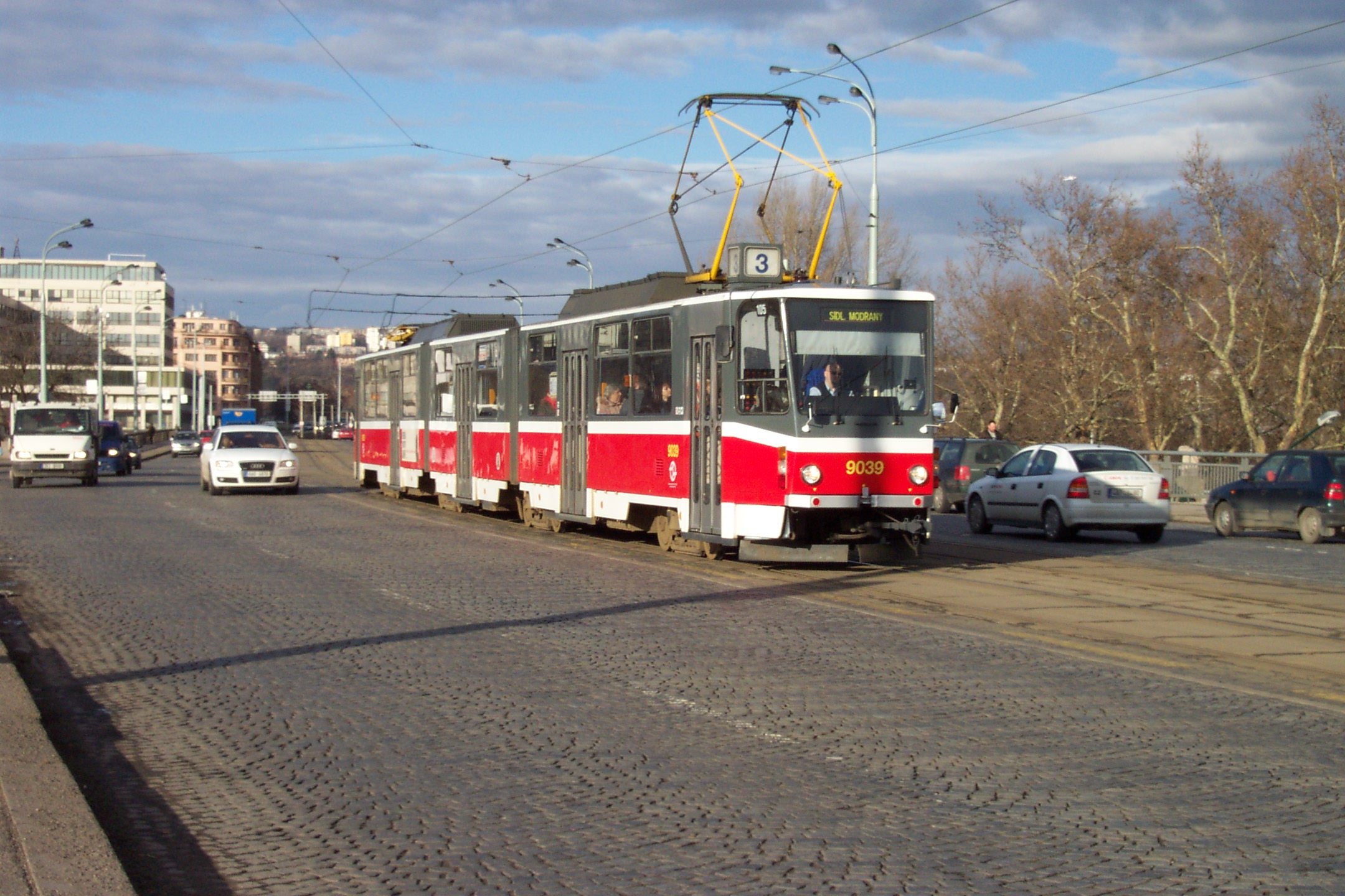 Tram KT8D5 in Prague, Hlávkův most